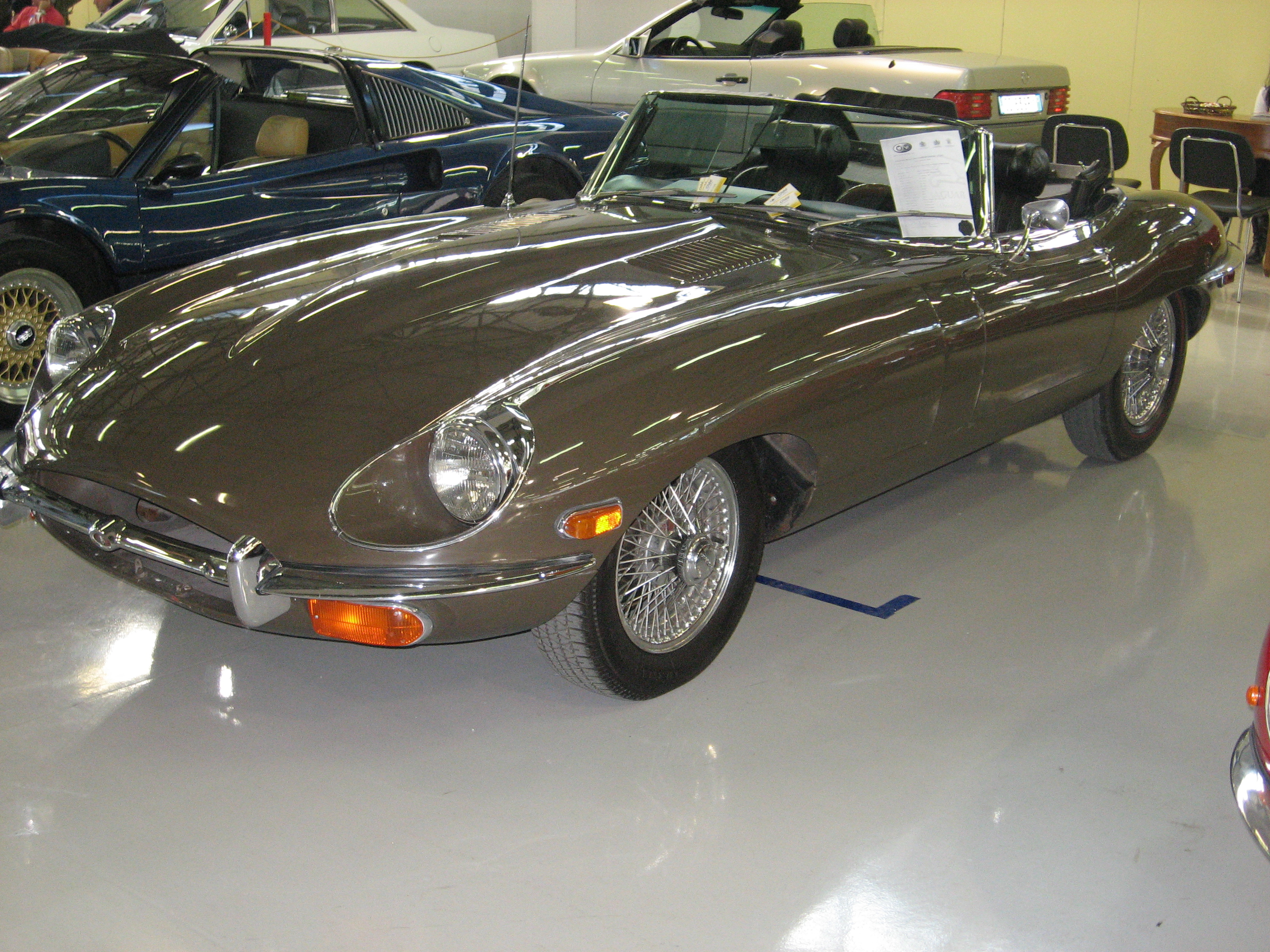 Subject:Jaguar E-Type Spider Author: Luc106 Date: 18th March 2007 City/Country: Forlì (Italy) Event: Old Time Show I release all rights in the public domain.